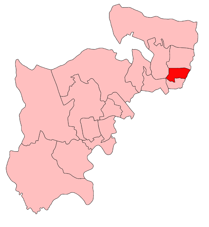 A map of Tottenham North constituency within Middlesex, as it existed from 1918 to 1950.